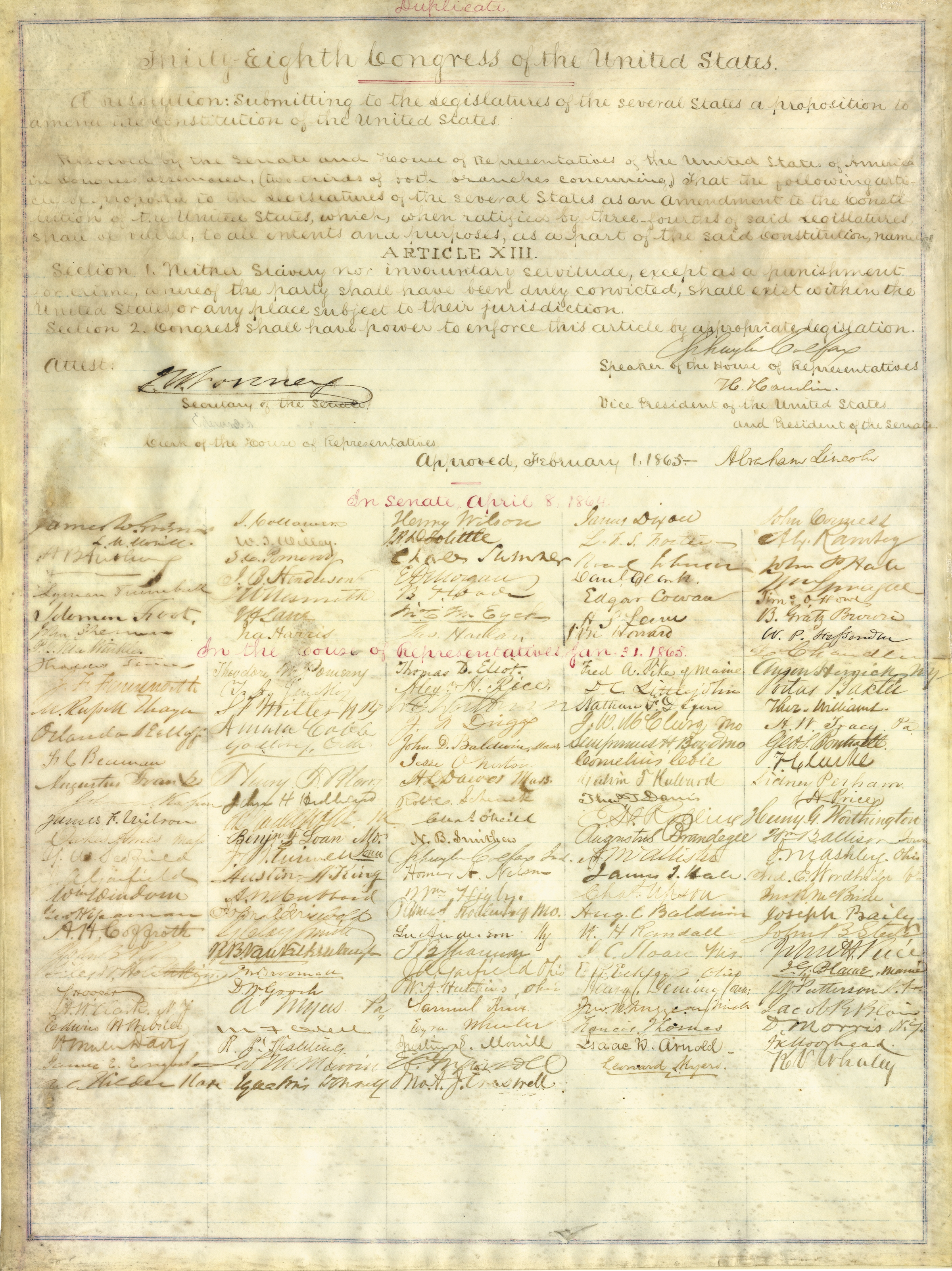 Copy of the 13th Amendment signed by Abraham Lincoln and members of Congress. Sold by Raynors' Historic Collectible Auctions in Burlington, N.C., on March 30, lot 72, for $1,868,750.